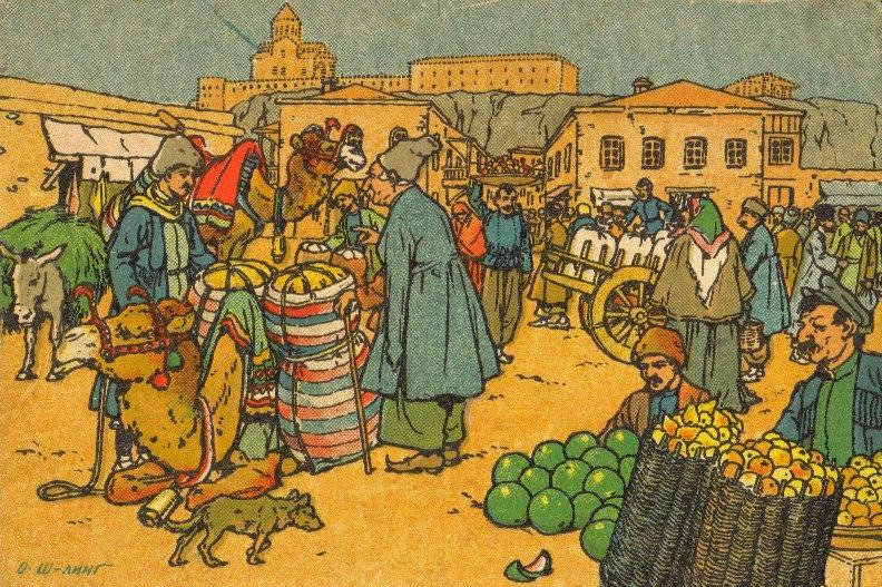 O. Shmerling - Tiflis